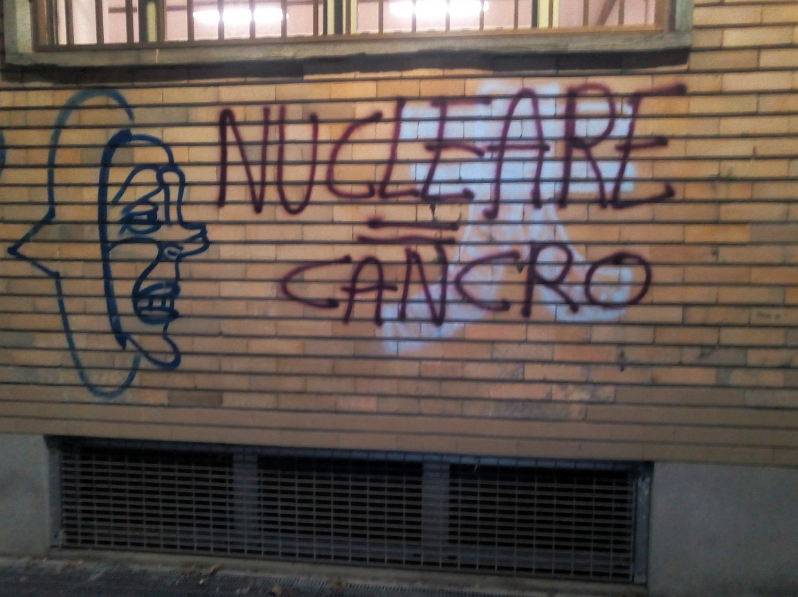 NUCLEARE = CANCRO, graffiti in Turin (nearby Politecnico)